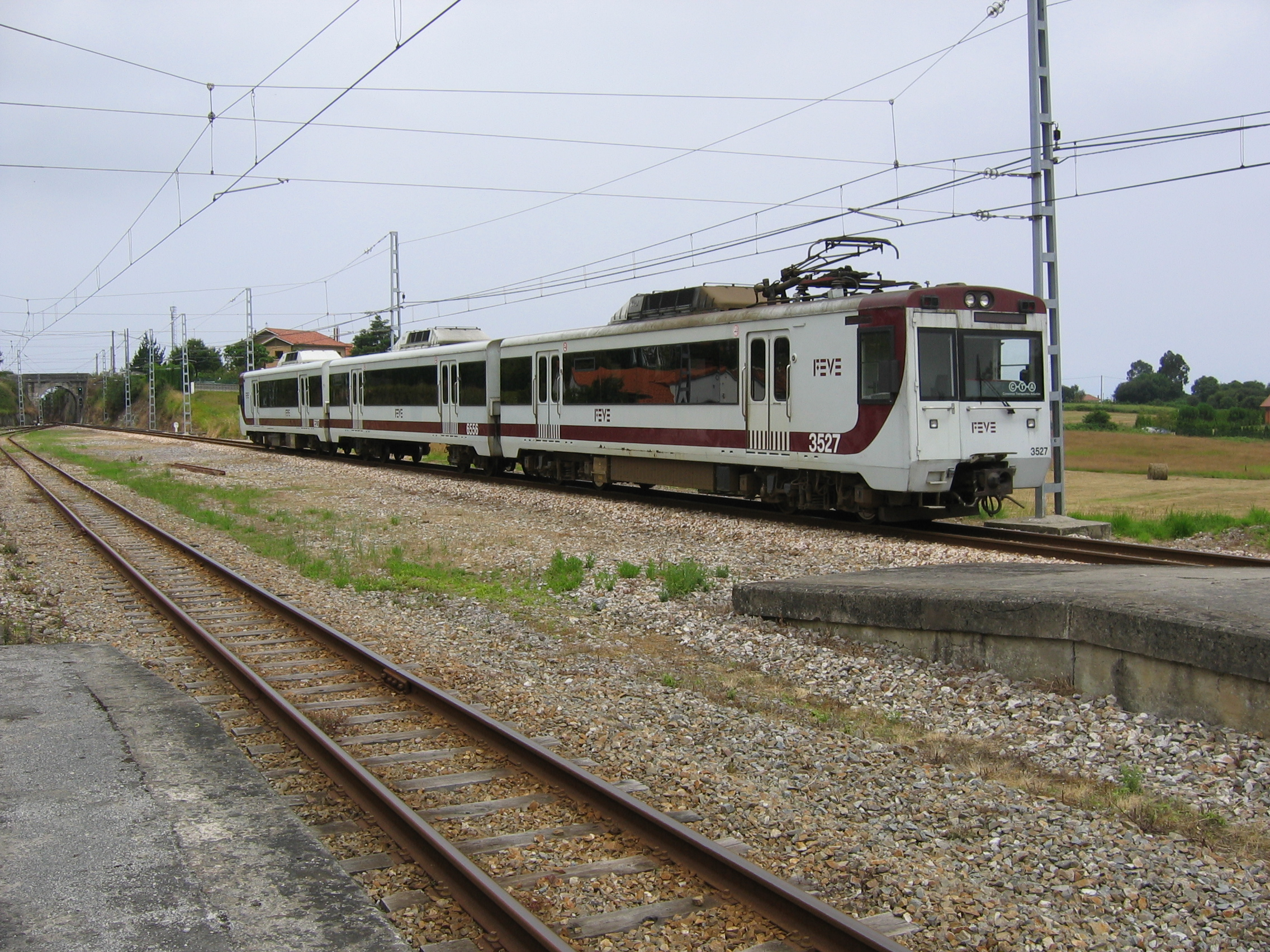 Electric unit 3500, managed by FEVE, arriving to the Muros de Nalón station, on the way to Gijón.